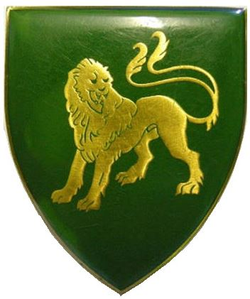 SADF Regiment Hillcrest emblem